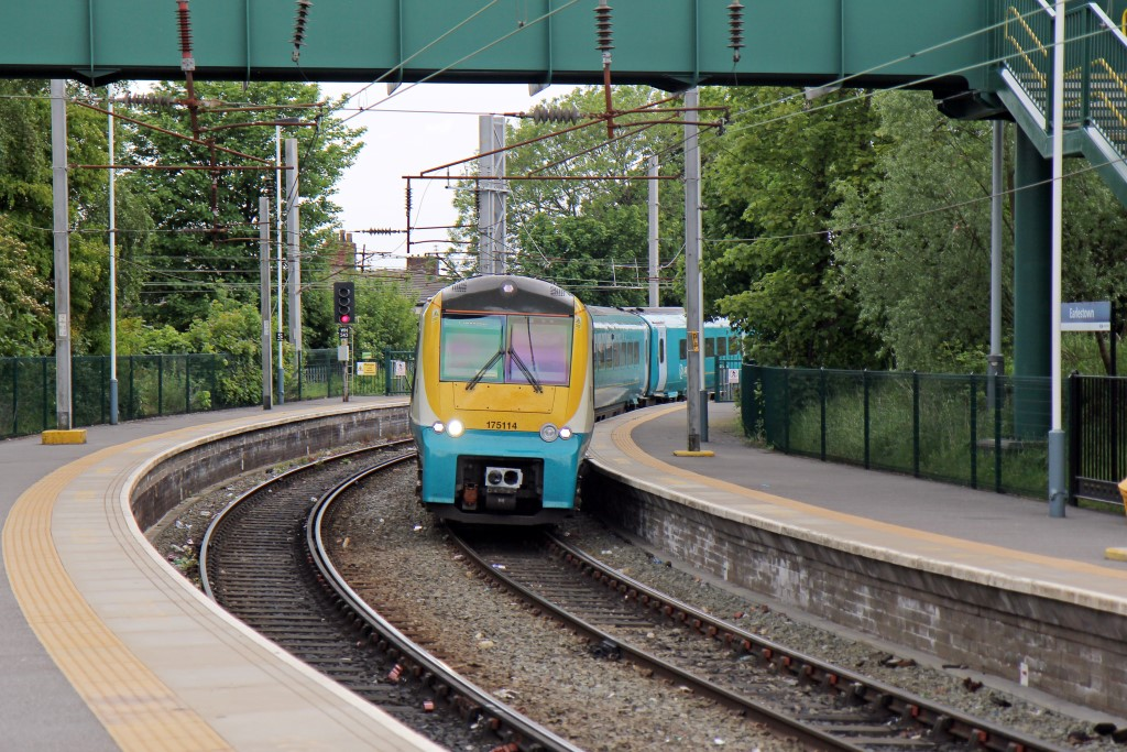 Arriva Trains Wales Class 175, 175114, platform 5, Earlestown railway station